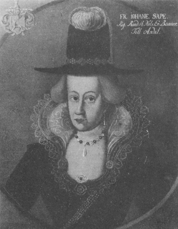 Portrait of Johanne Andersdatter (Panter or Sappe) (died 1479), Danish noblewoman and landowner